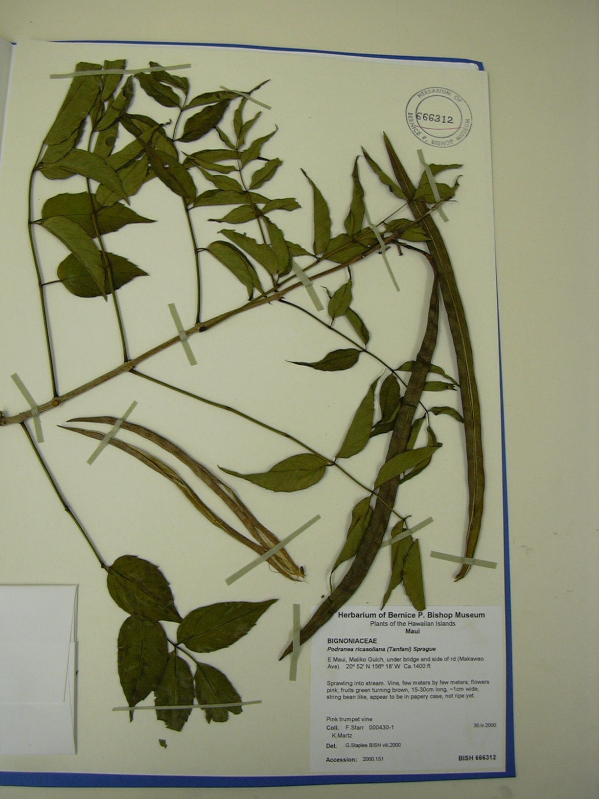 Podranea ricasoliana (BISH specimen). Location: Maui, Makawao